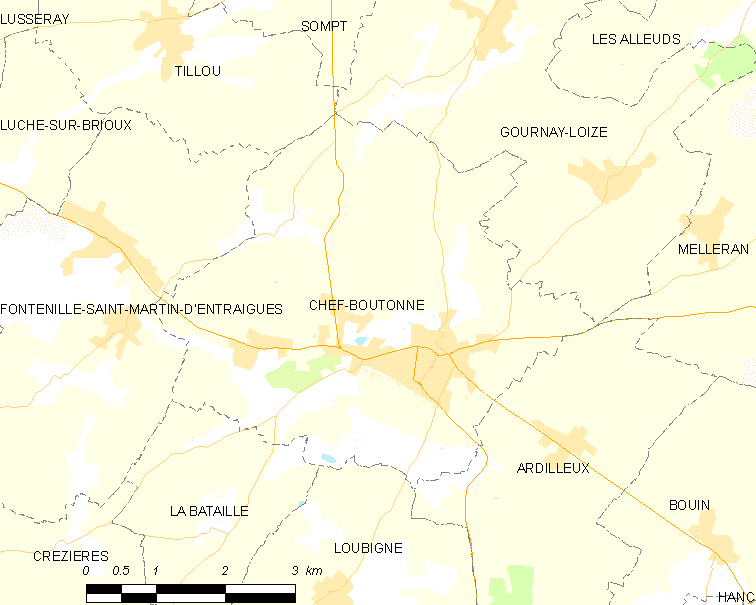 Map of French municipality Chef-Boutonne